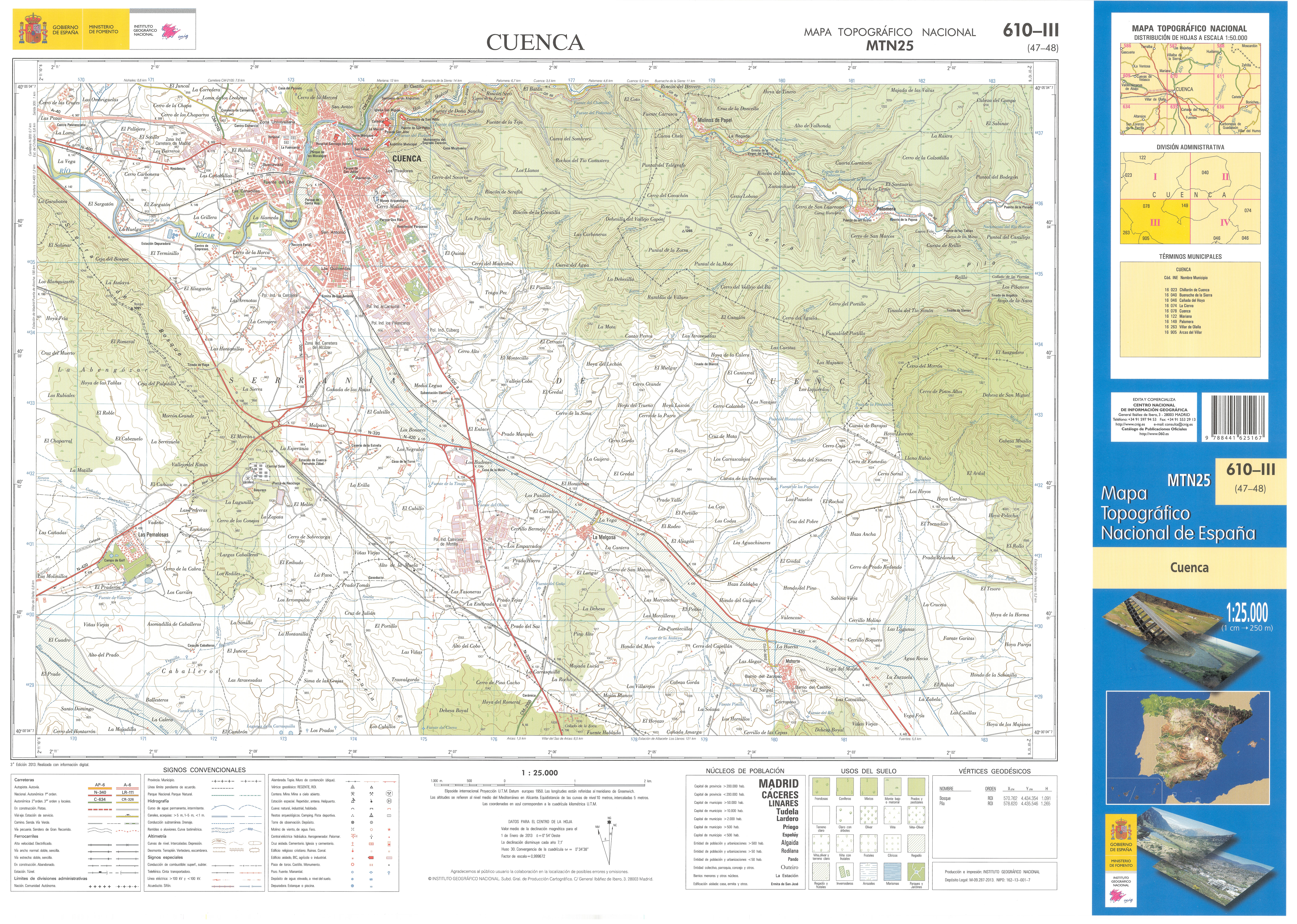 Fragment 0610c3 of the National Topographic Map of Spain in 2013 at a scale of 1:25000 printed and scanned with a resolution of 250 ppi. It shows Cuenca.